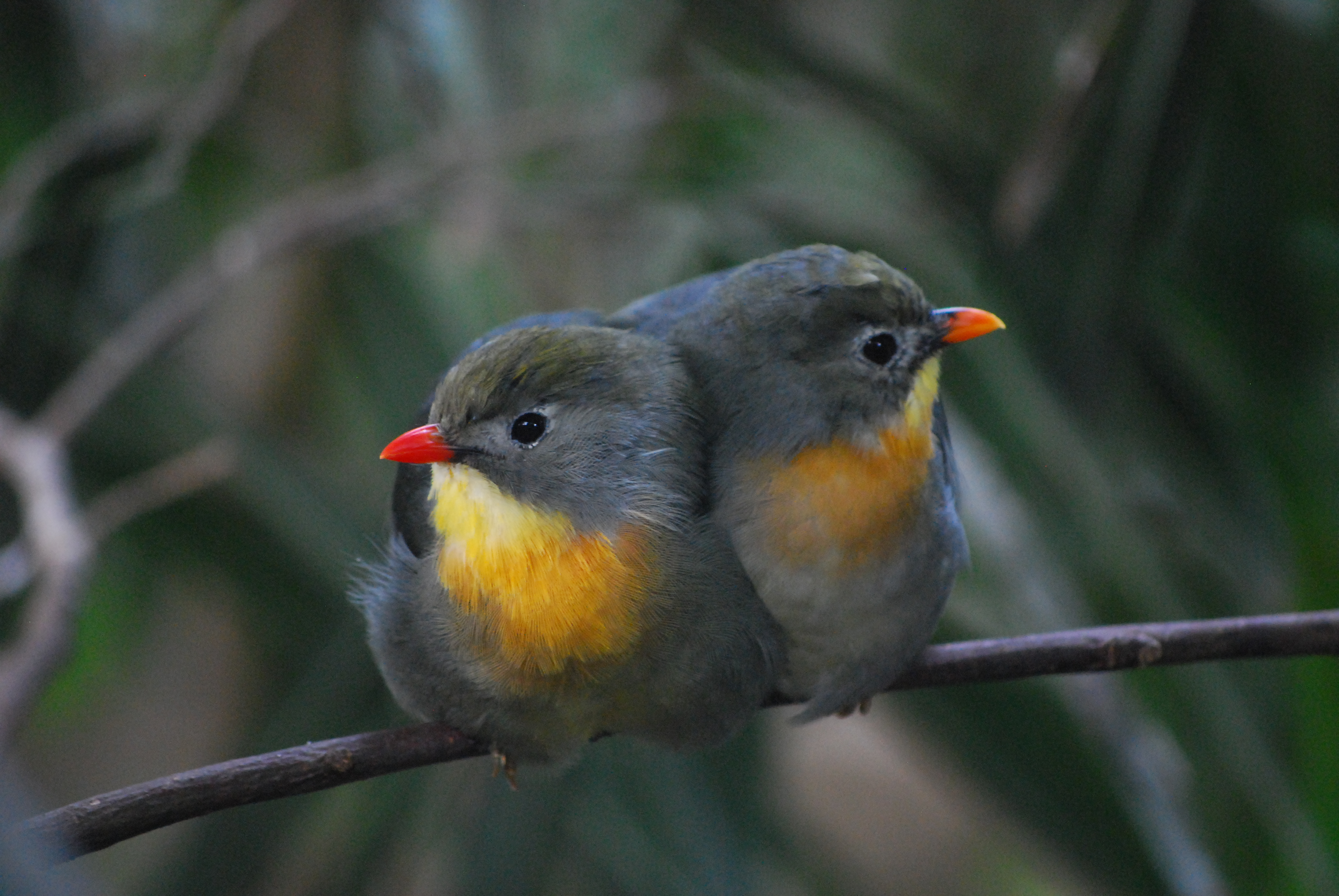 Two Red-billed Leiothrixes at Chester Zoo, England.